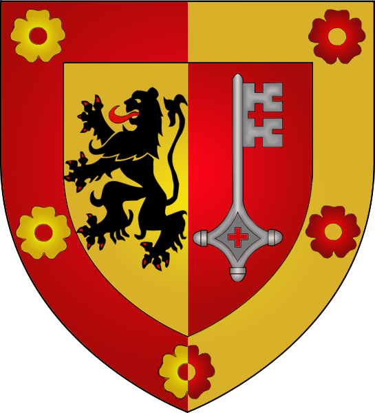 Coat of arms of the municipality of Flaxweiler, Luxembourg